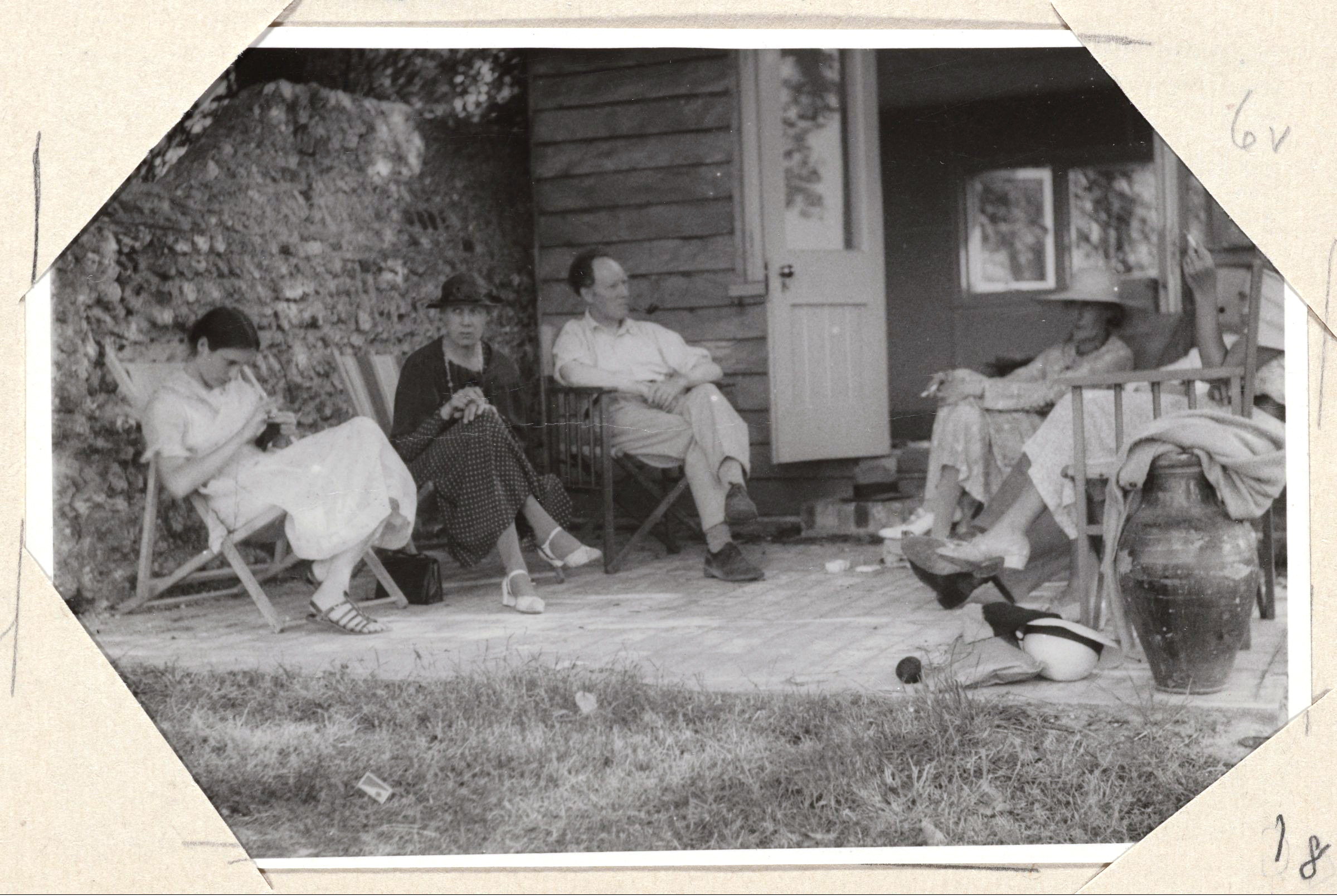 Angelica Garnett, Vanessa Bell, Clive Bell, Virginia Woolf, John Maynard Keynes and Lydia Lopokova sitting outside. Picture from Virginia Woolf Monk's House photograph album